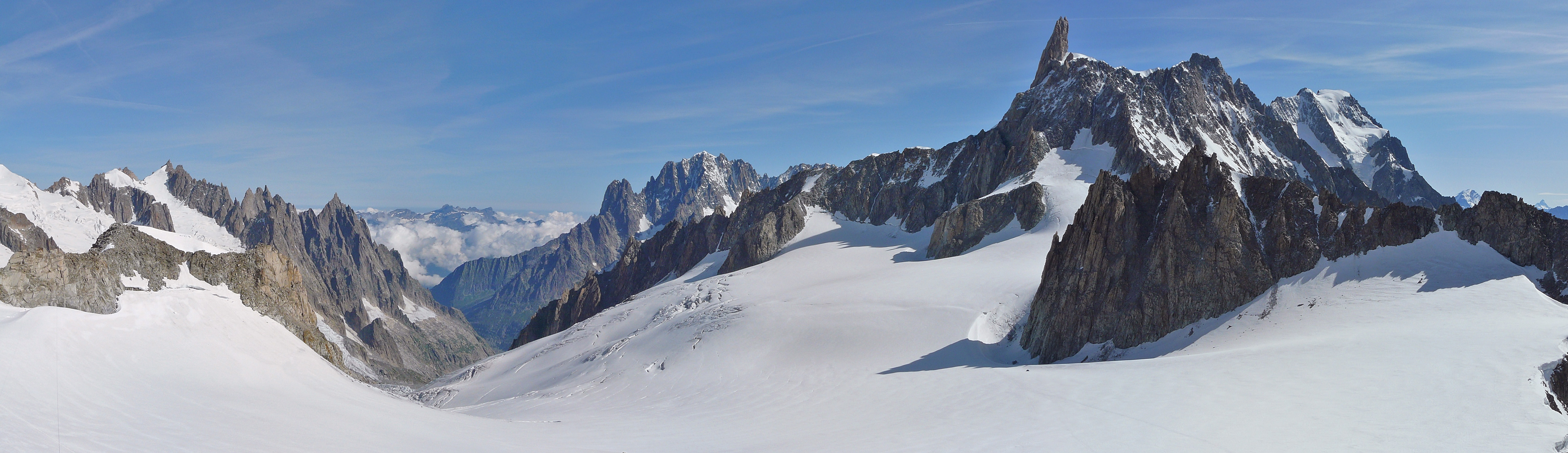 A view to Aiguilles de Chamonix, Aiguille Verte, Dente del Gigante, Aiguille de Rochefort and Grandes Jorasses from Punta Helbronner in 2009 July.